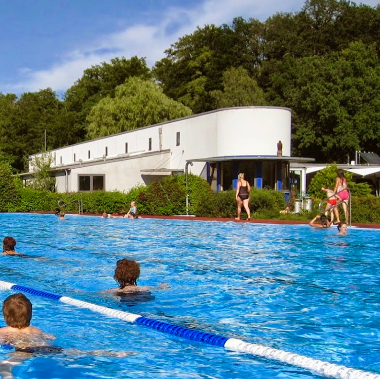 Pool Swimmingpool near the Hagen forrest